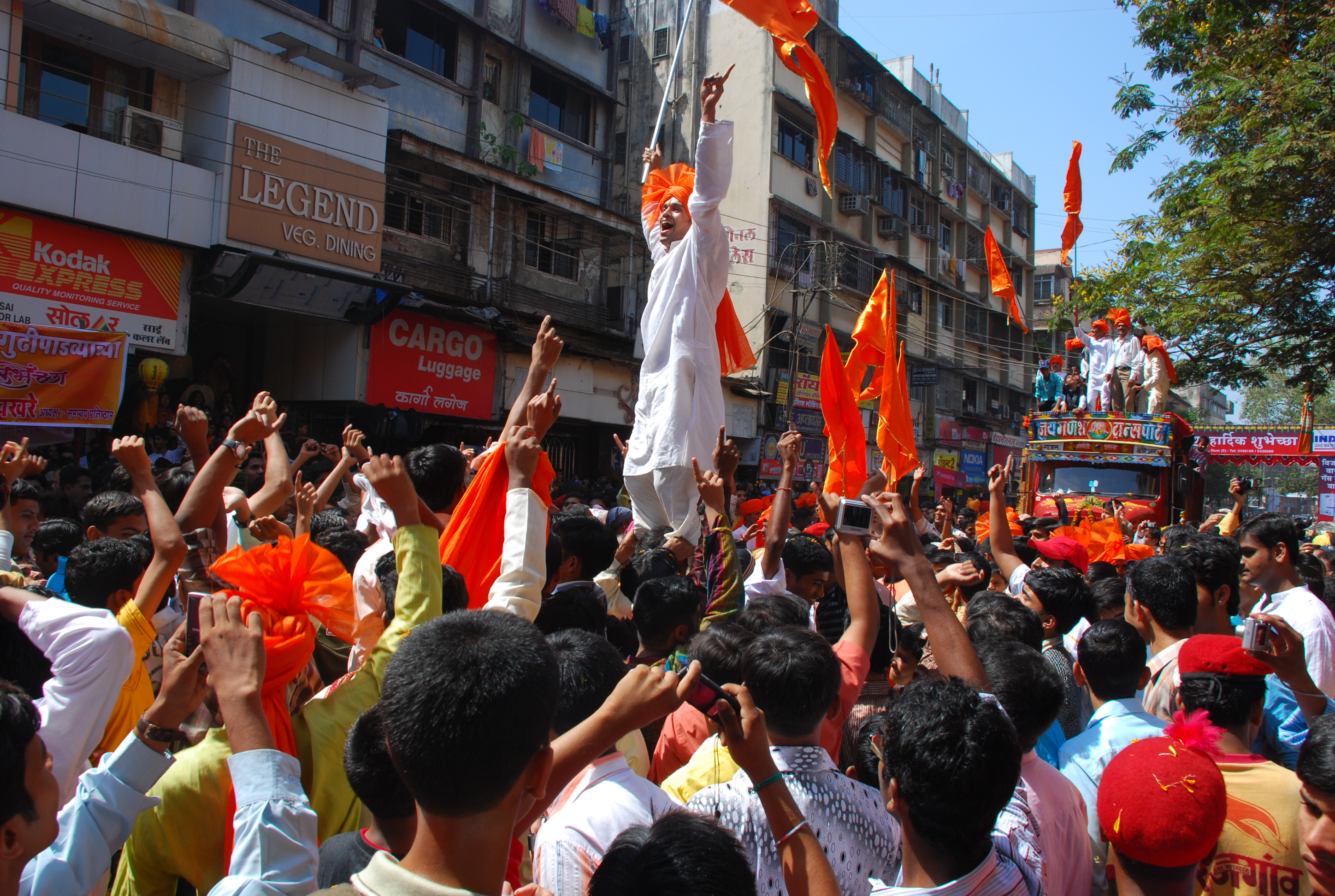 2009 Hindu new year celebrations in Maharashtra The same festival is called Ugadi in Andhra Pradesh, Telangana, Karnataka